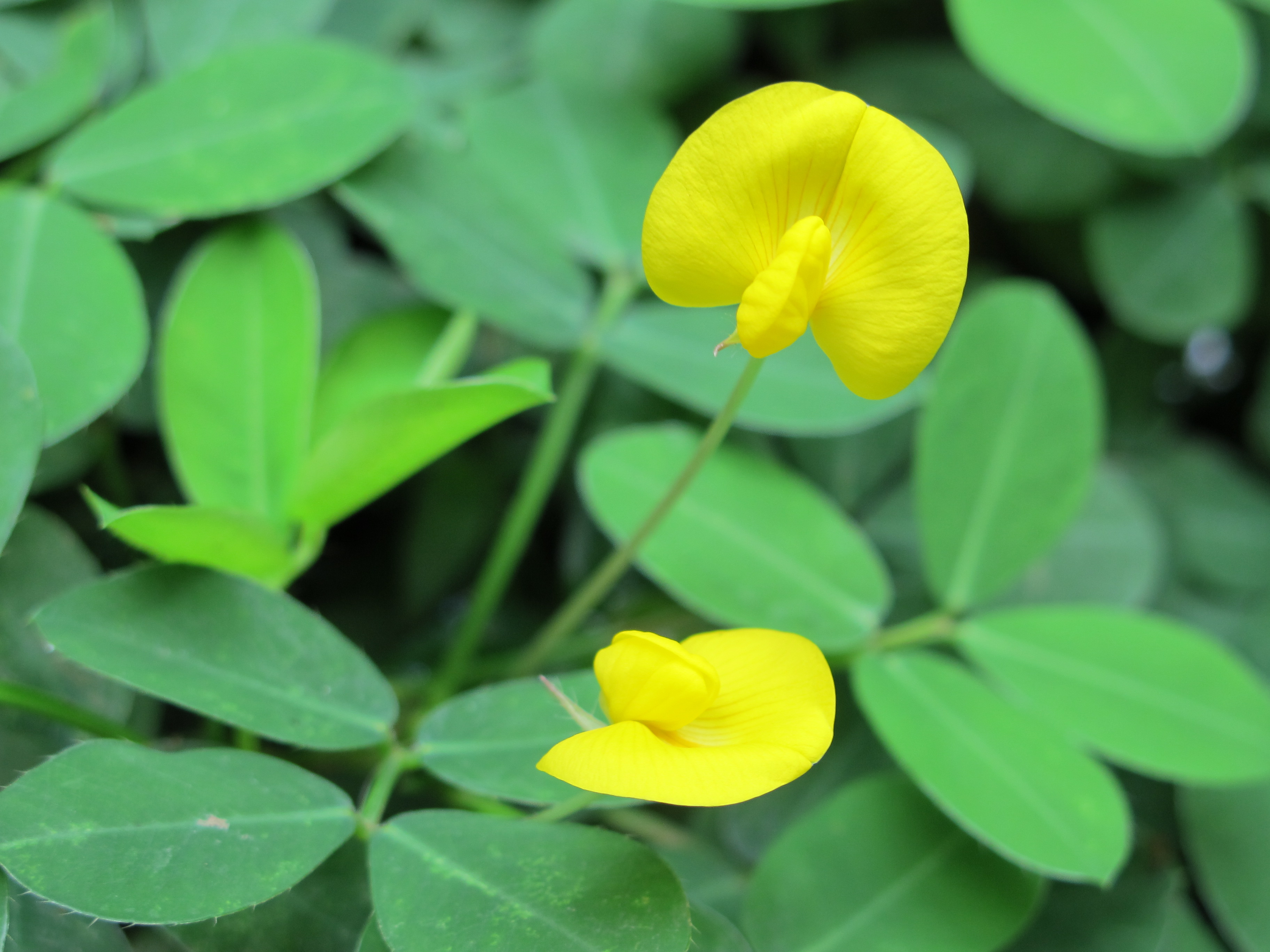 Pinto peanut (Arachis pintoi) flower. Taken in Kuching, Borneo Island.